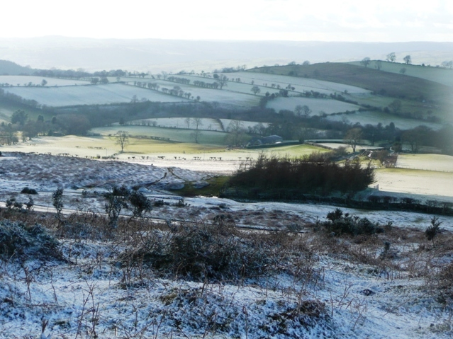 West from the Gospel Pass road on a day of strong winds, bright sunshine, snow showers and wonderful clear views, this is an attempt to capture all of these in one shot. As we drove down the Gospel Pass road the different layers of light and shade showed clearly.